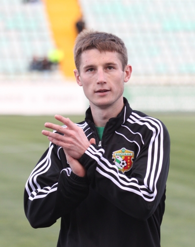 Volodymyr Chesnakov is a professional Ukrainian football defender